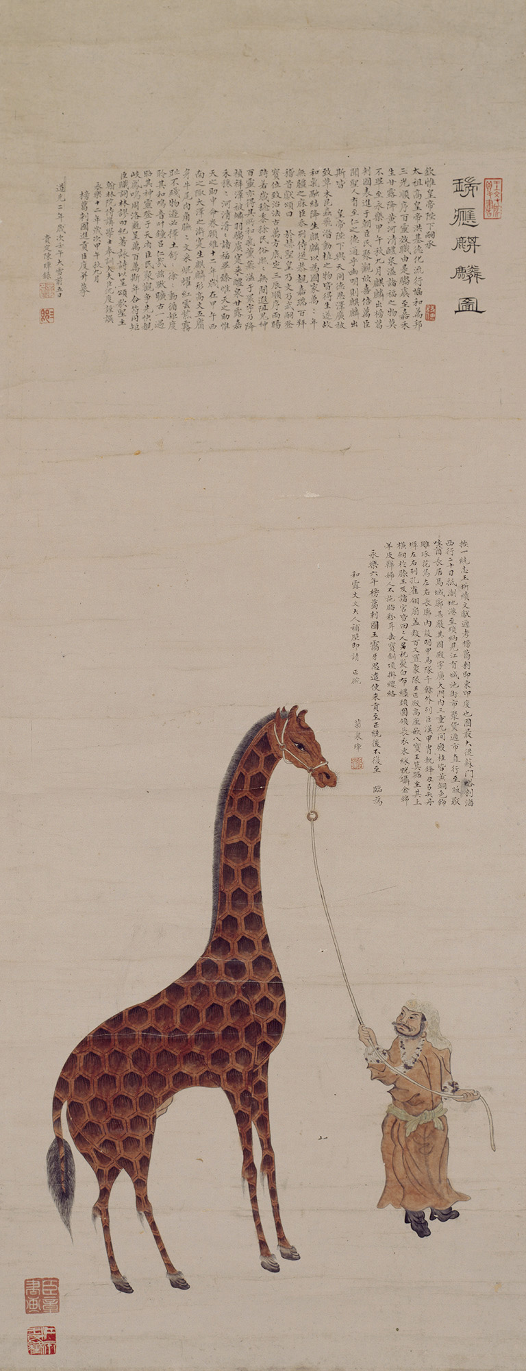 This is Chen Zhang's copy of an original painting made by Shen Du in 1414.